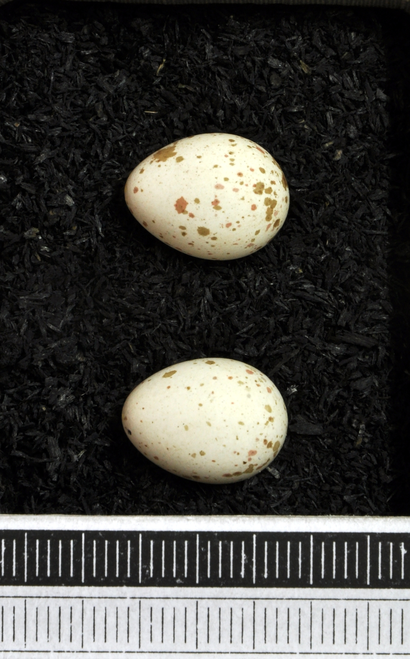 Azure tit Cyanistes cyanus , egg, Coll. Museum Wiesbaden